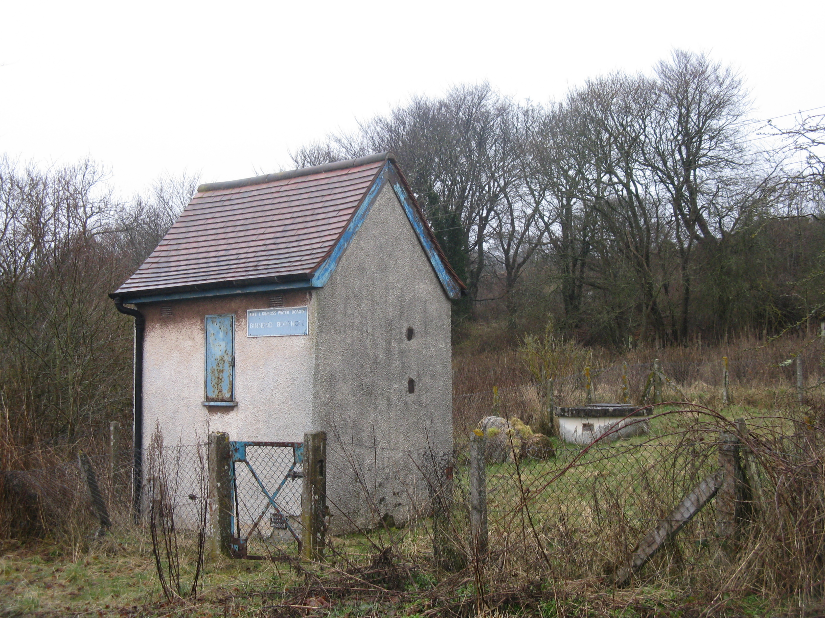 Binnend Borehole